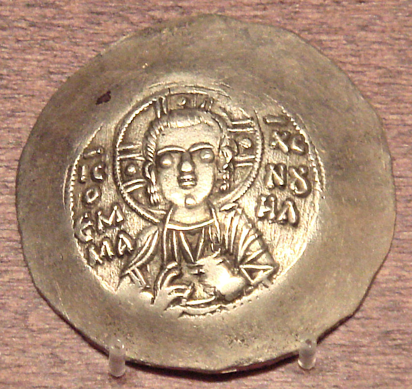 Manuel I Comnene Electrum Coin (Aspron Traky)